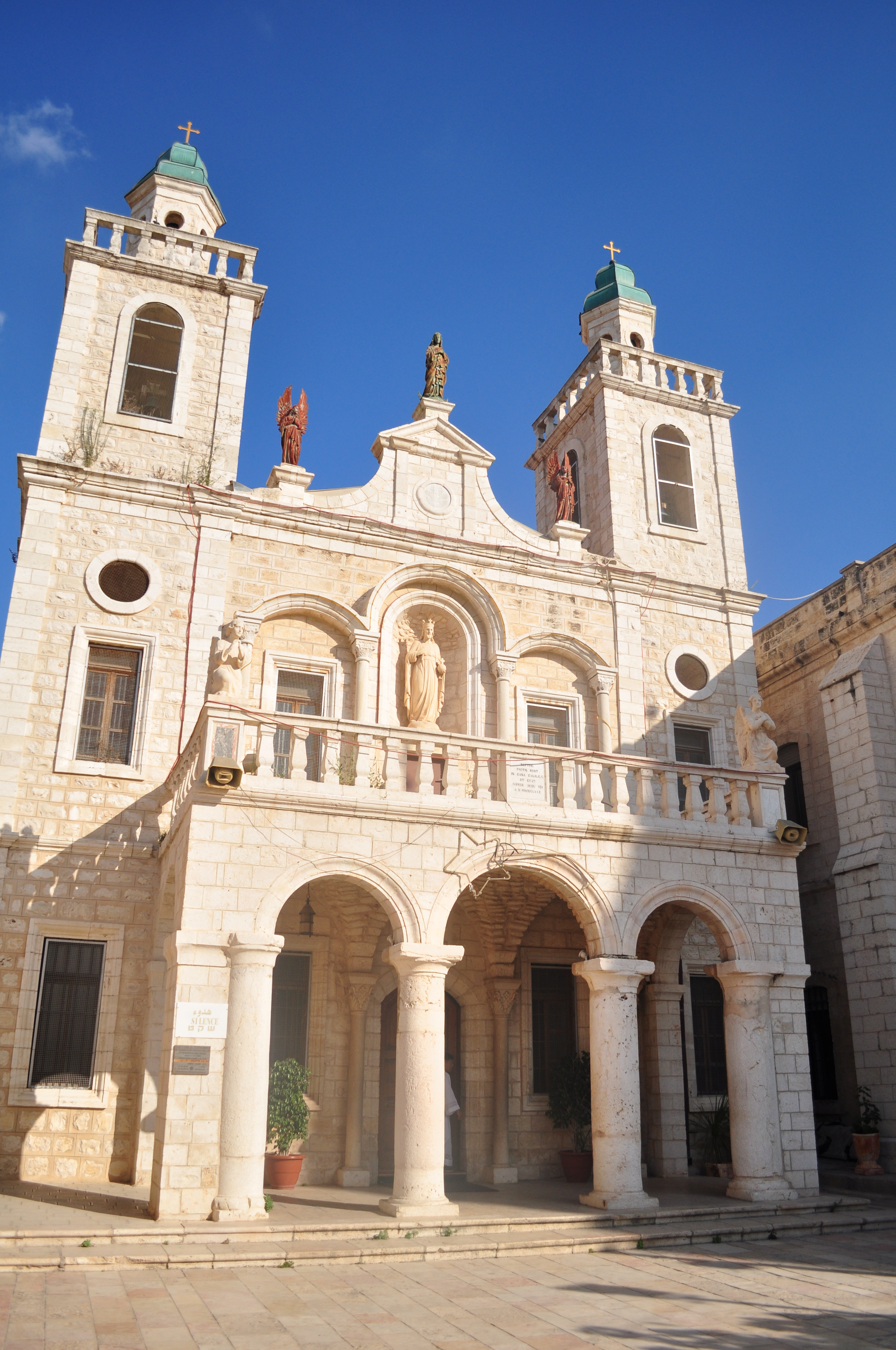 Weddingchurch in Kafr Kanna